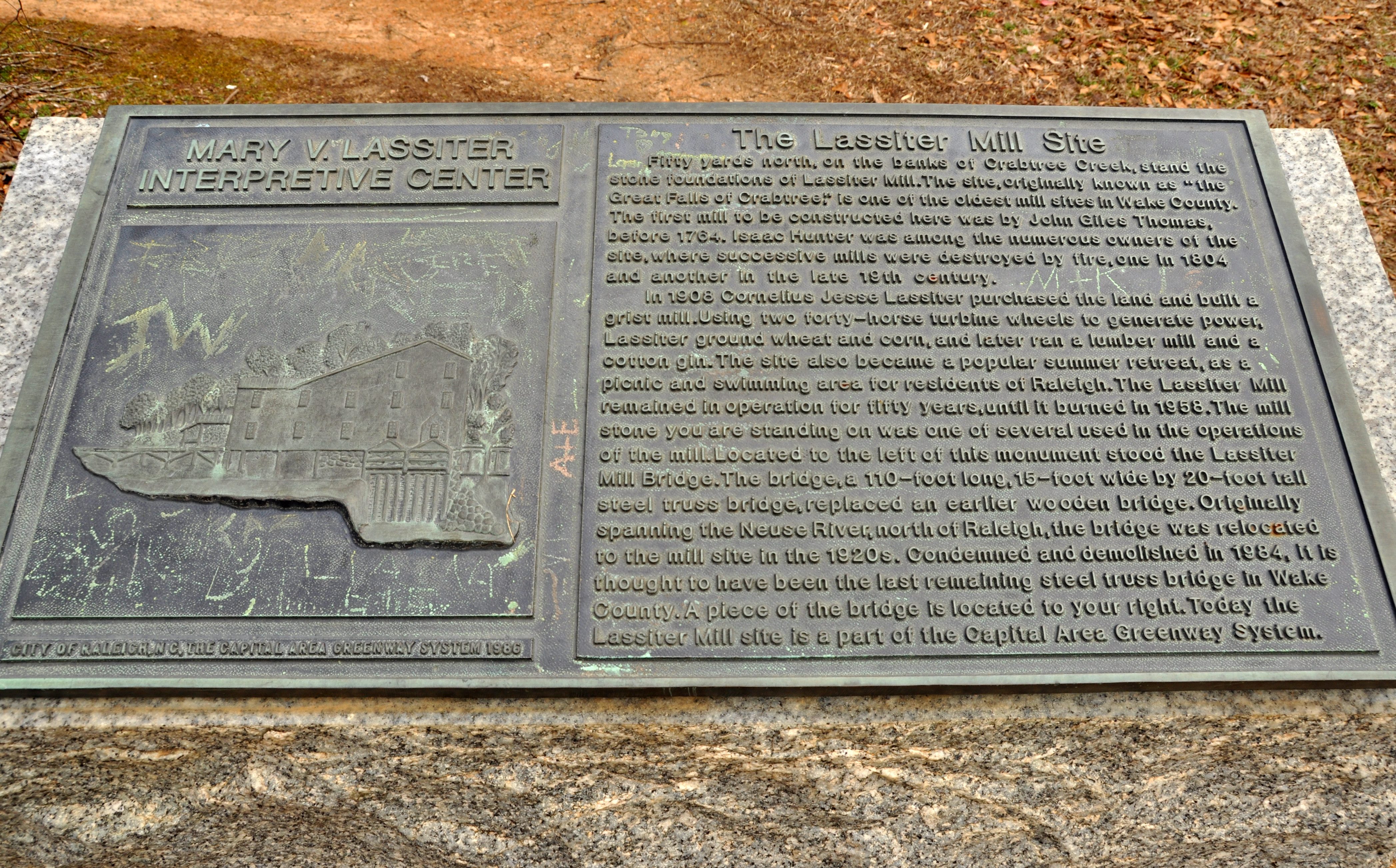 City of Raleigh plaque at Lassiter Mill.